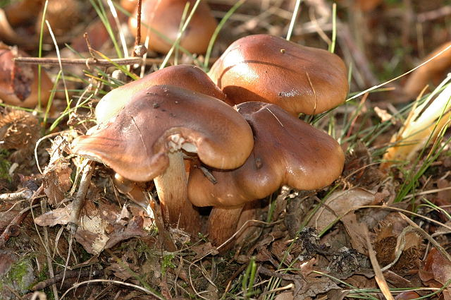 Tricholoma ustale from Commanster, Belgium. The determination of the species shown in this picture has been verified.